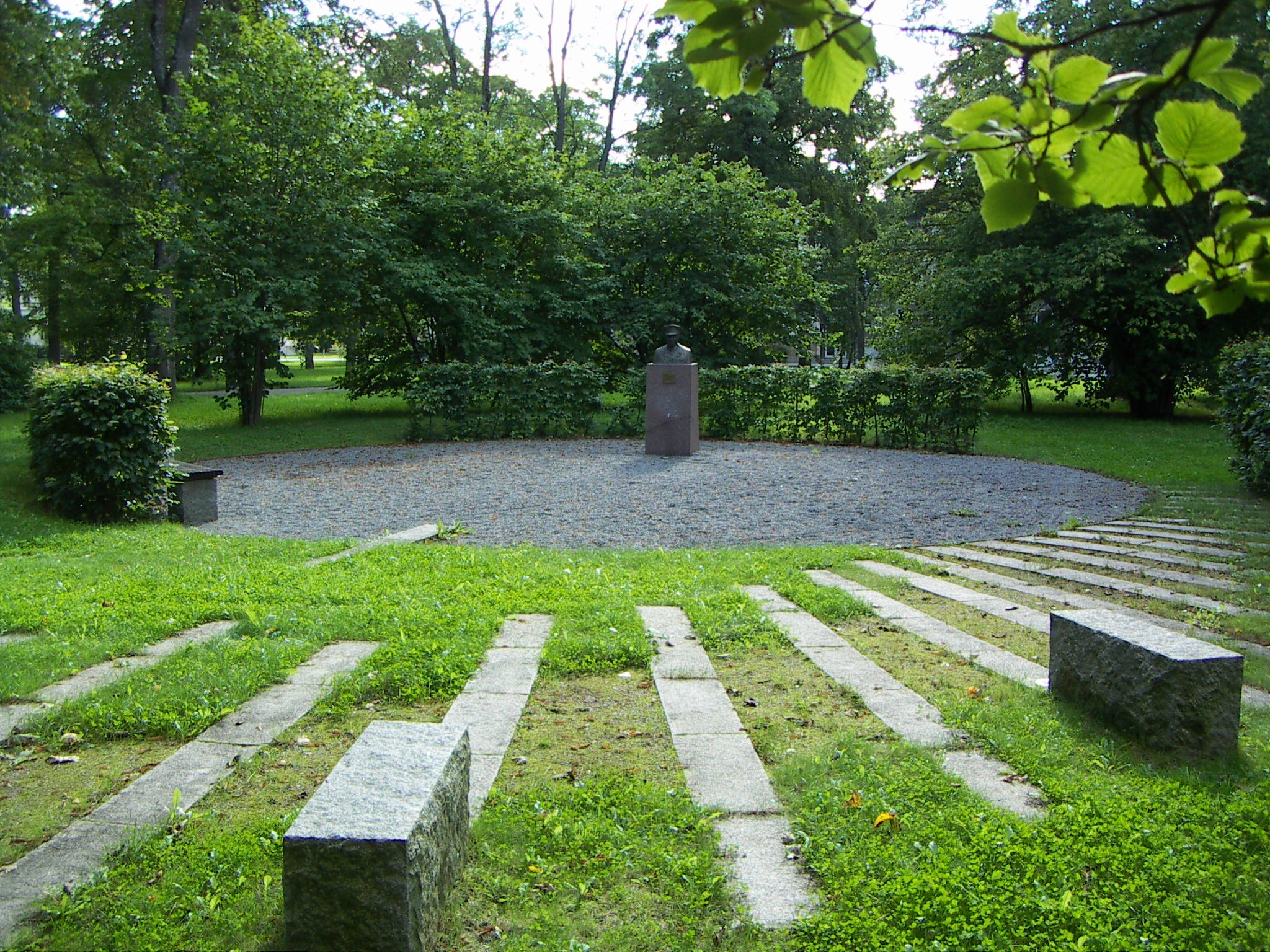 The Folke Bernadotte monument in the English Gardens, Uppsala, Sweden.